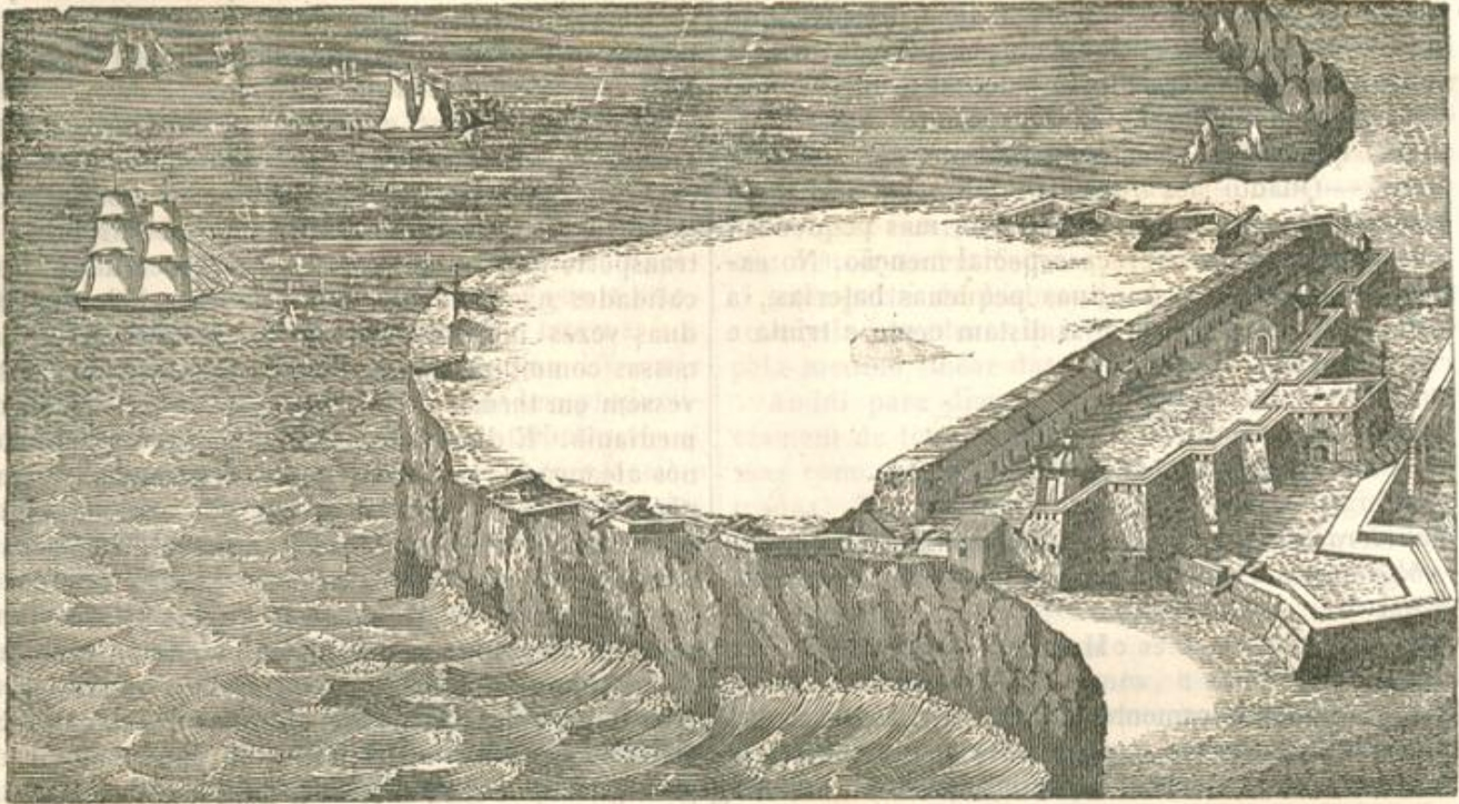 Fortress of Sagres, in the Algarve region, in southern Portugal.